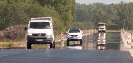 A mirage over a hot asphalt road